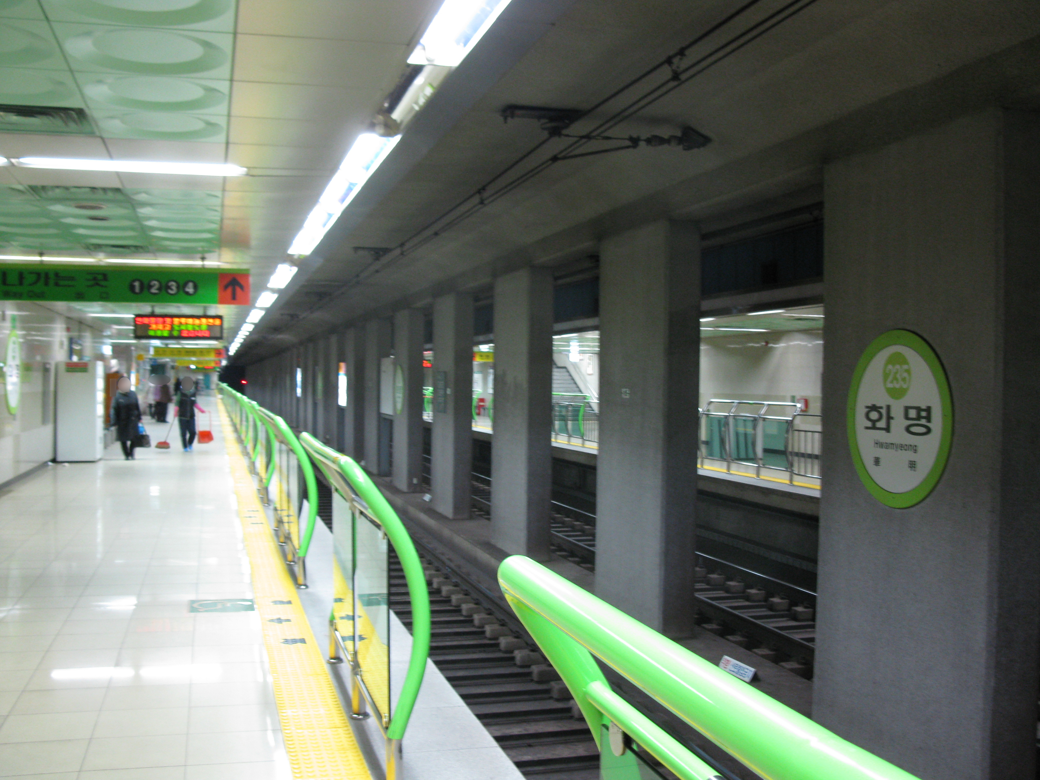 Hwamyeong Station platform (Busan Subway Line 2)